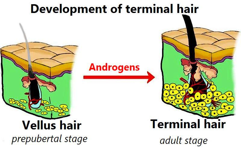 Translation of File:Androgensensibilitaet.JPG, idea by OIEnglish, made by Kubek15